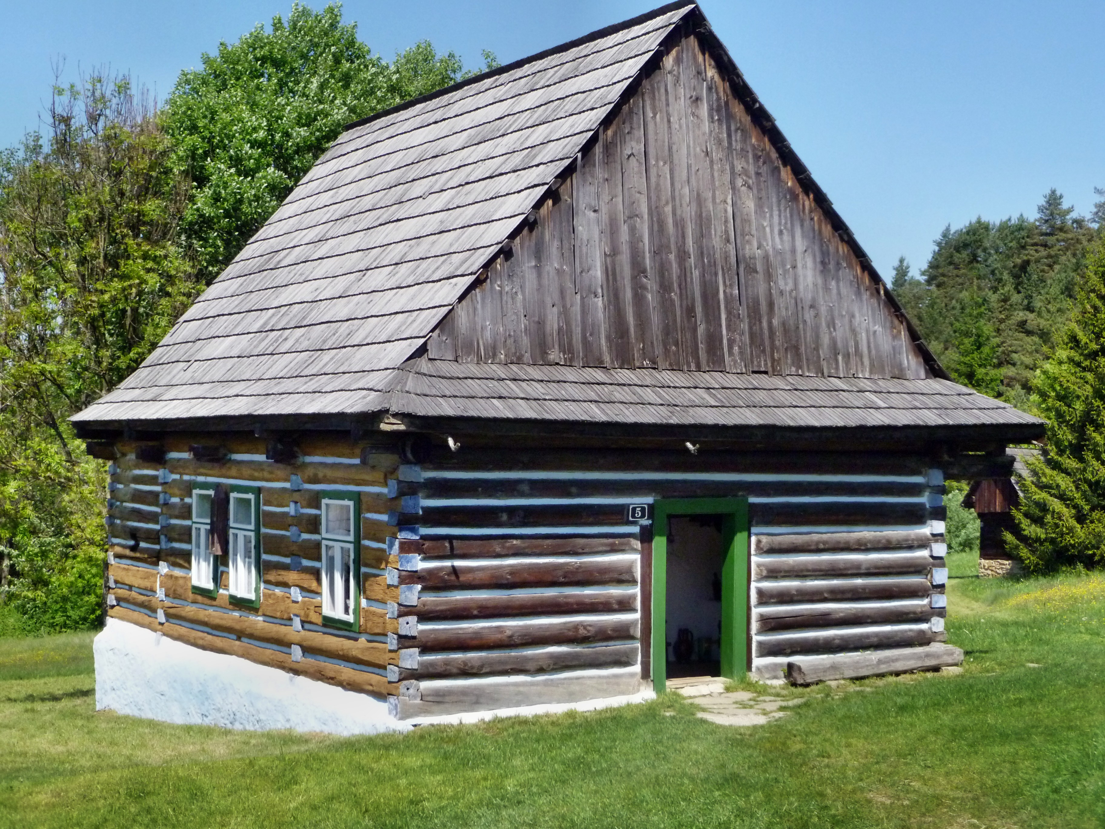 Farmer's house (and house of the village reeve) in the open-air museum of Ľubovňa (Slovakia)